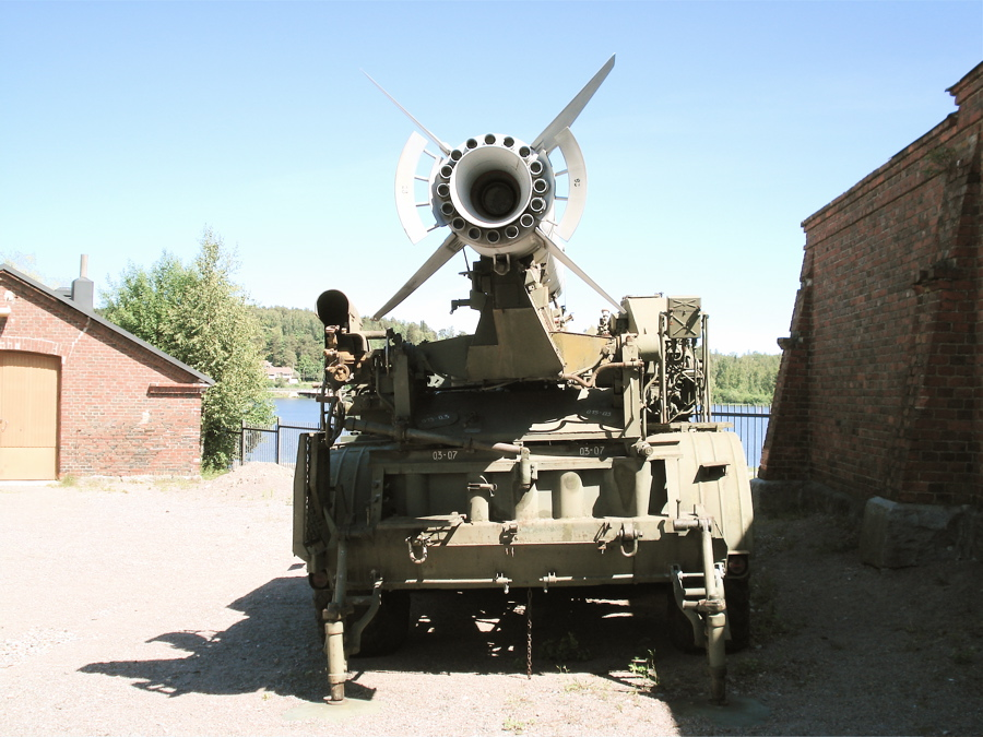 Soviet FROG-7B (Luna-M) missile system, displayed in Hämeenlinna Artillery Museum. This was a tactical weapon, with a range from 10 to 65 km and a 450 kg warhead, conventional, chemical or nuclear. Photo taken on June 18, 2006. Source: Photo by me, User:Balcer.